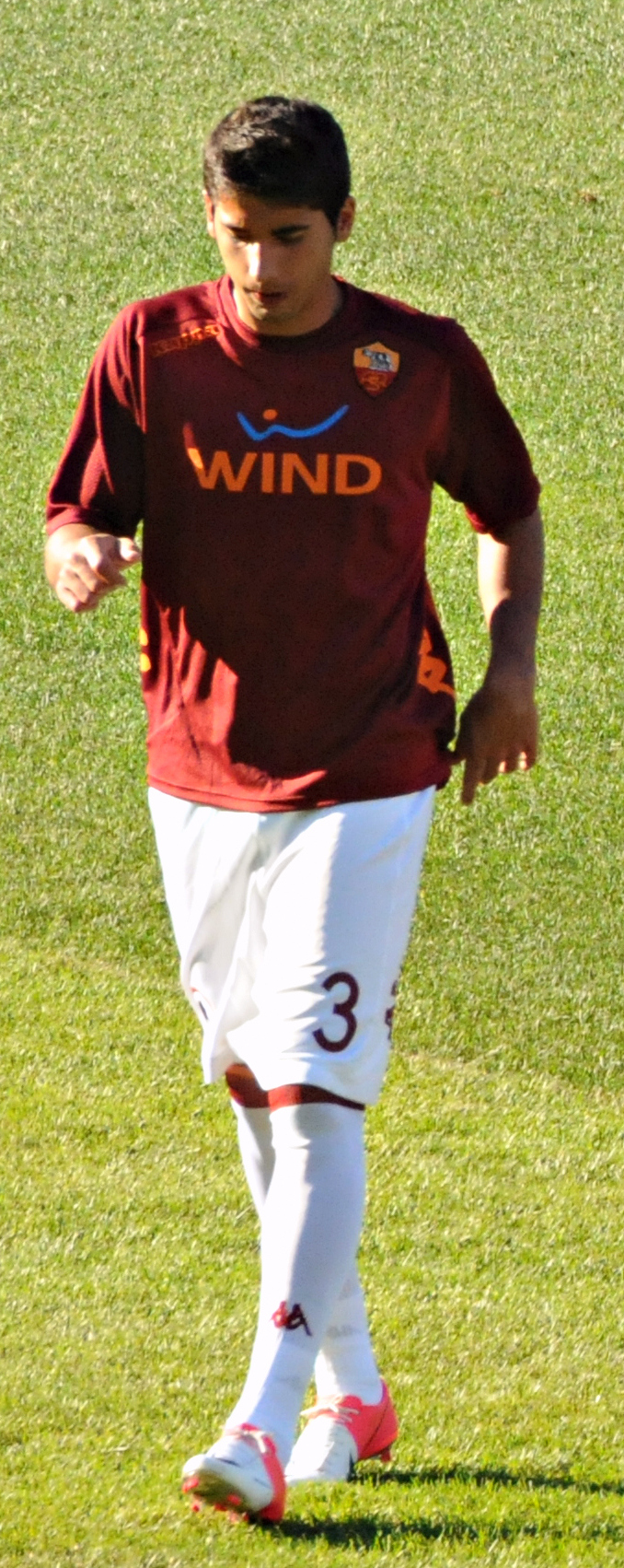 José Ángel. Bojan, Tachtsidis before the game between Liverpool and AS Roma at Fenway Park, 25 July 2012.